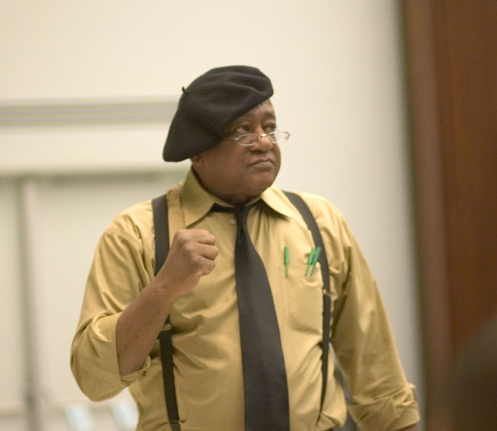 Bobby Seale